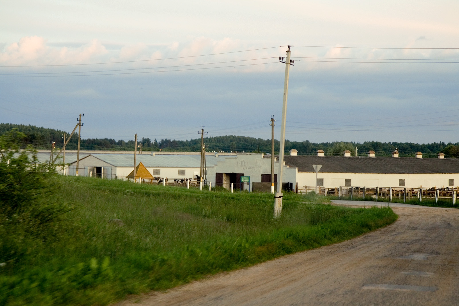 Farm in Bryli zaścienak, Miadzieł district, Minsk province, Belarus. Беларуская (тарашкевіца): Фэрма ў вёсцы Брылі, Мядзельскі раён, Менская вобласьць, Беларусь.